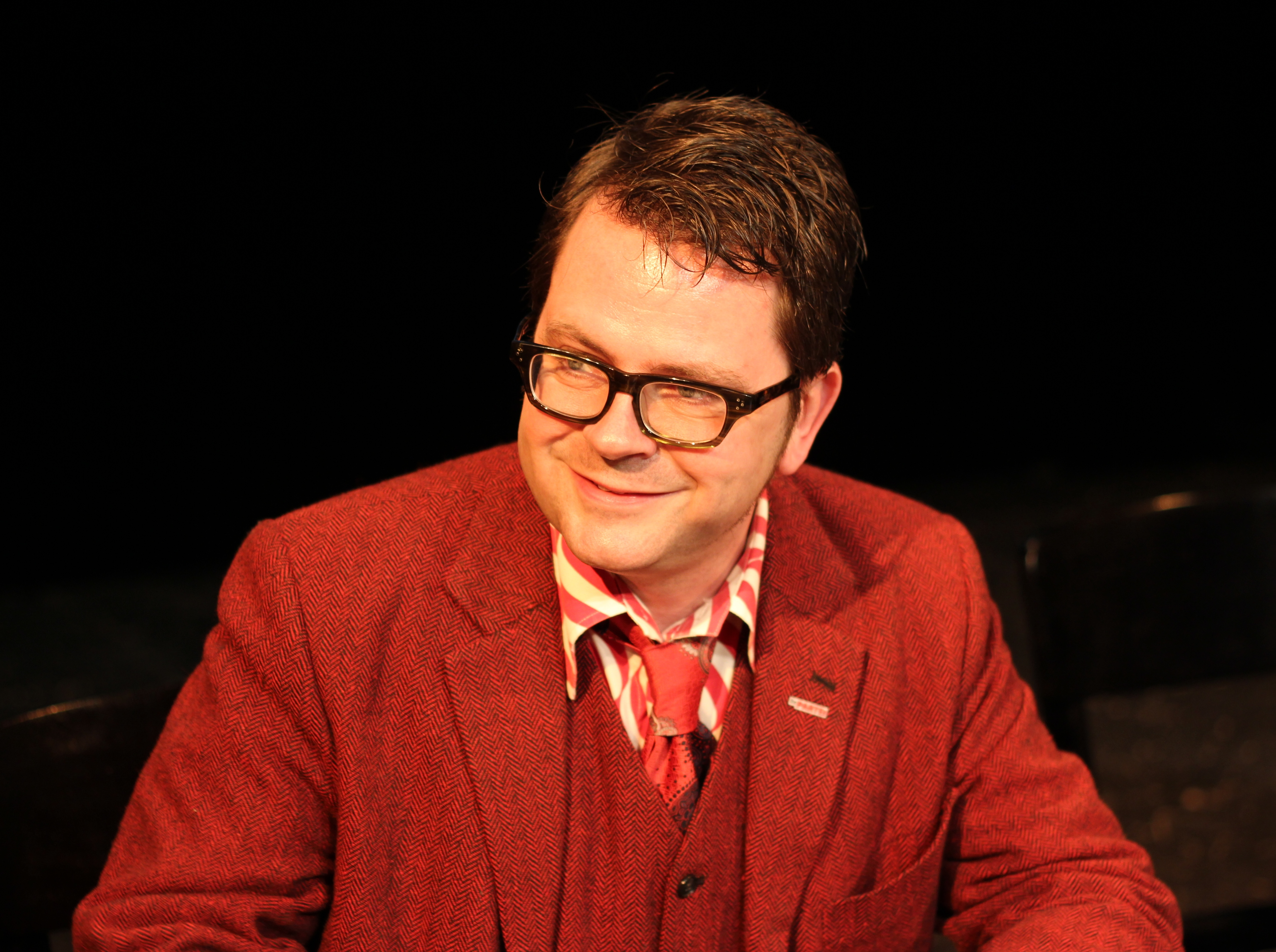 German writer and satirist Oliver Maria Schmitt.